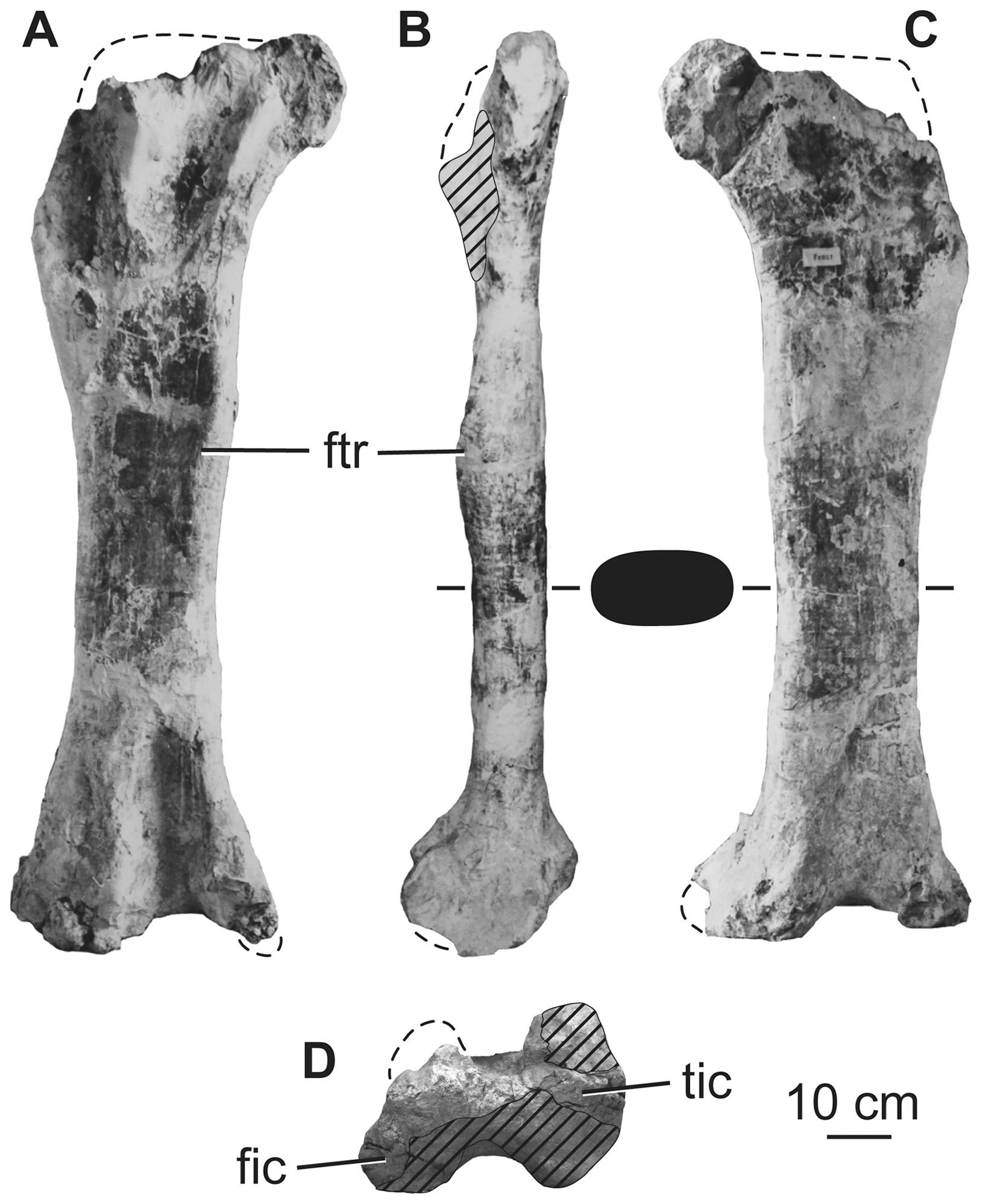 Holotypic left femur of Huabeisaurus allocotus (HBV-20001) from the Upper Cretaceous of Shanxi, China. Photographed during original preparation in (A) posterior, (B) medial, (C) anterior, and (D) distal views. Silhouette between (B) and (C) shows schematic cross section of the diaphysis. Abbreviations: fic, fibular condyle; ftr, fourth trochanter; tic, tibial condyle. Striped pattern indicates broken surface, dashed lines indicate broken bone margins.